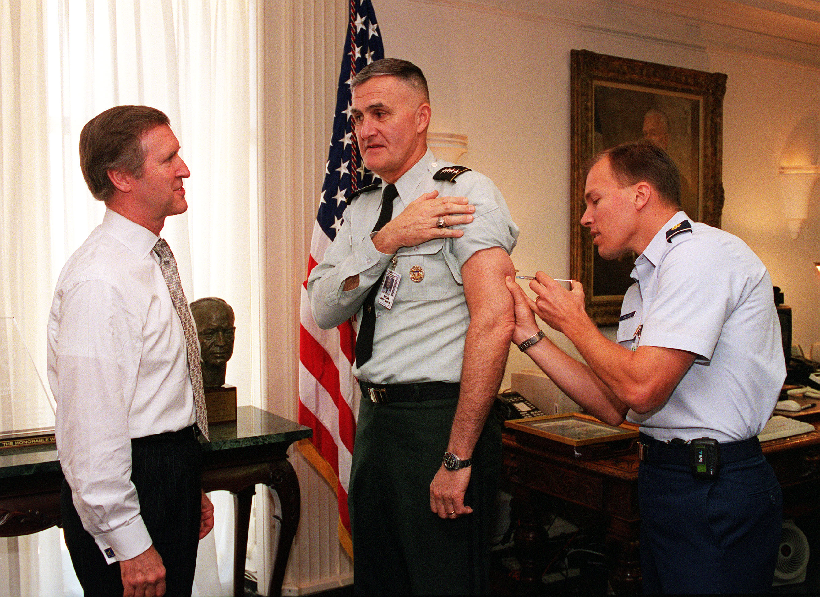 U.S. Air Force Flight Surgeon Maj. Timothy Ballard (right) administers the final shot in the six-dose series of anthrax inoculations to Chairman of the Joint Chiefs of Staff Gen. Henry Shelton (center), U.S. Army, as Secretary of Defense William S. Cohen (left) watches in the Pentagon on Sept. 24, 1999. Following this shot, a once-a-year booster is all that will be required to maintain resistance to anthrax. Ballard is attached to the 11th Medical Group.